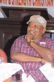 senthil is famous comedy artist in tamil cinema alongside with goundamani